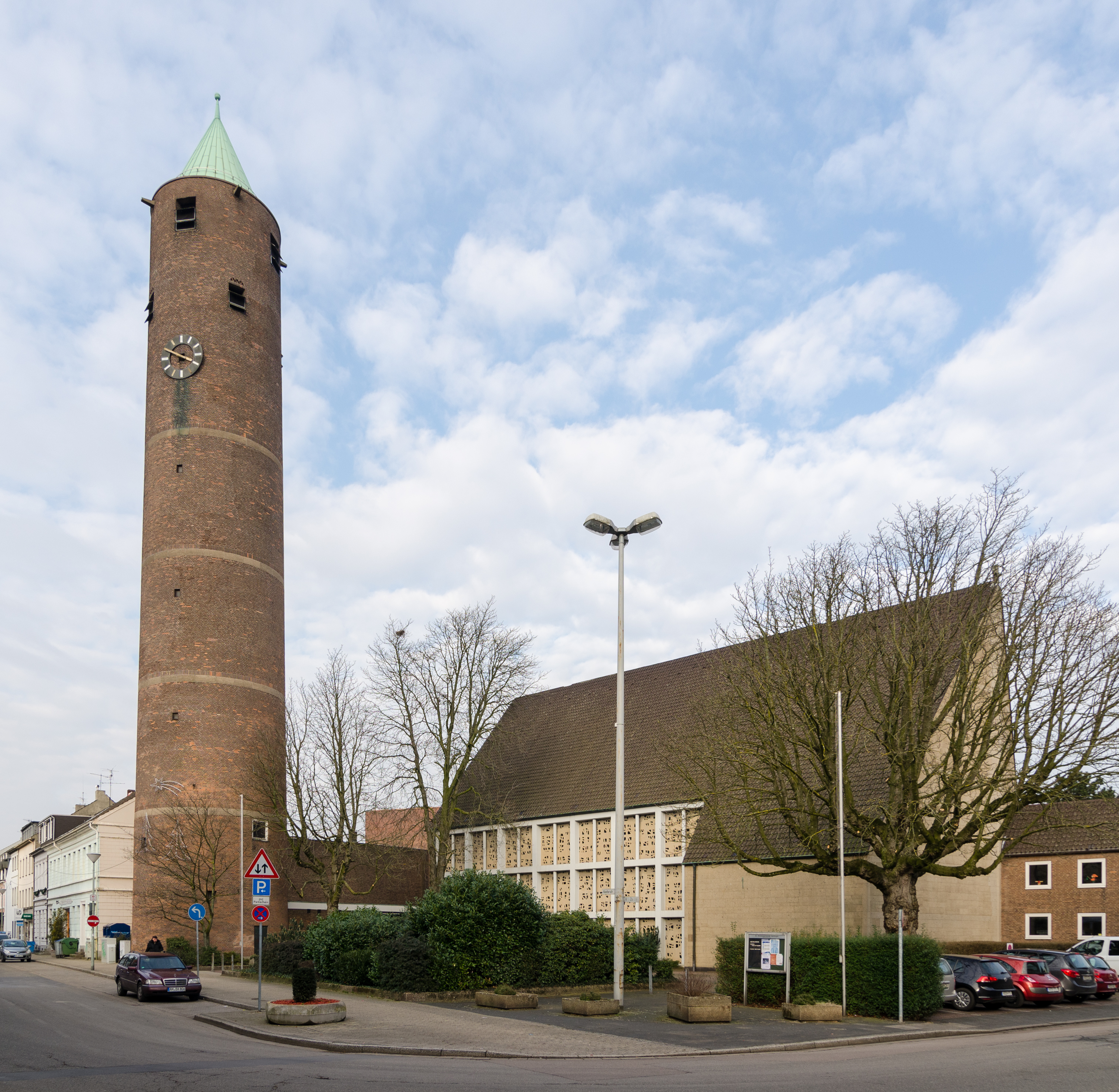 Krefeld (North Rhine-Westphalia, Germany) – district Uerdingen – Protestant Saint Michael Church